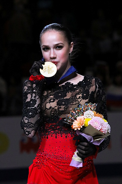 Alina Zagitova at the World Championships 2019 - Awarding ceremony